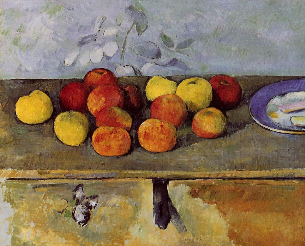 Paul Cezanne's art